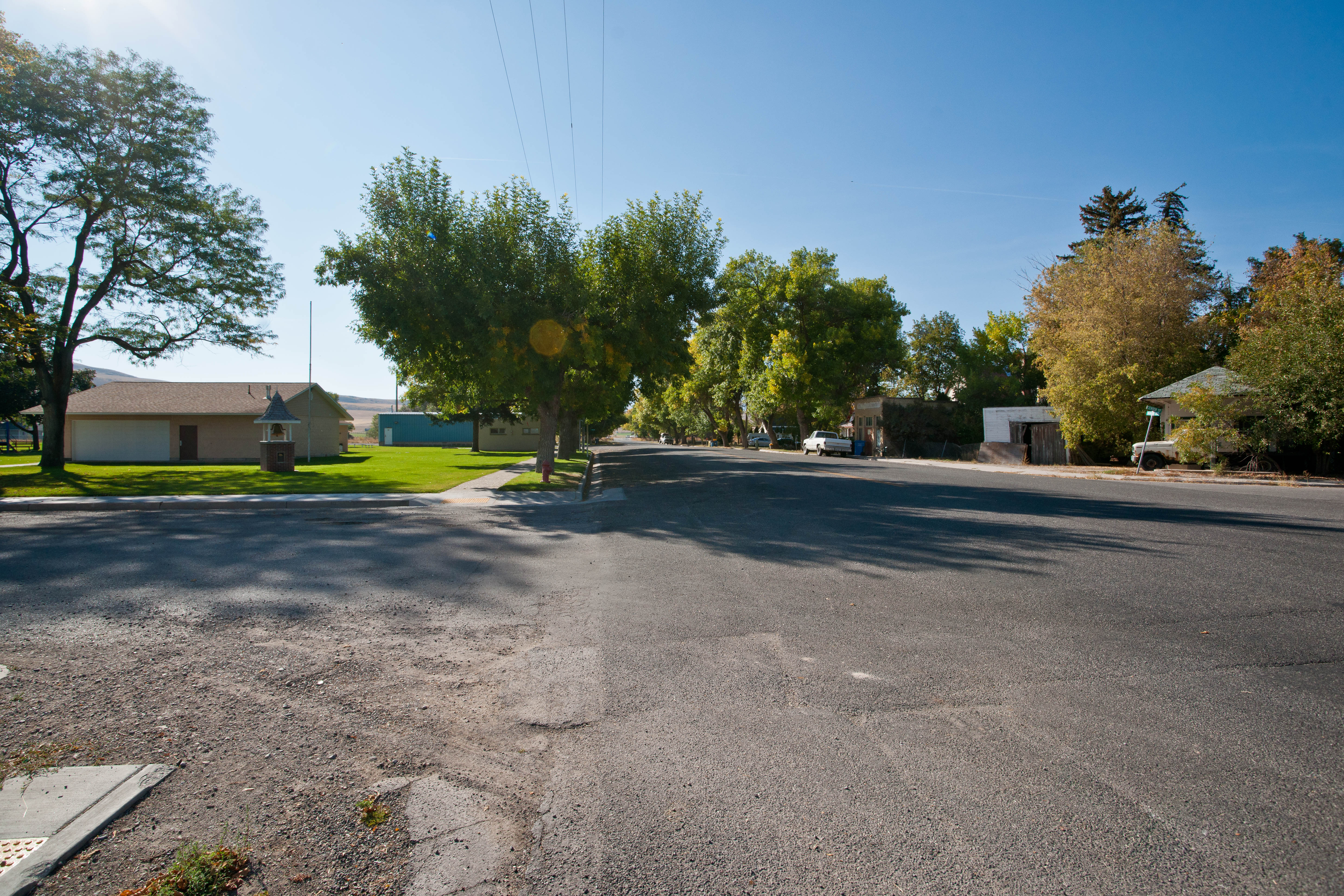 From